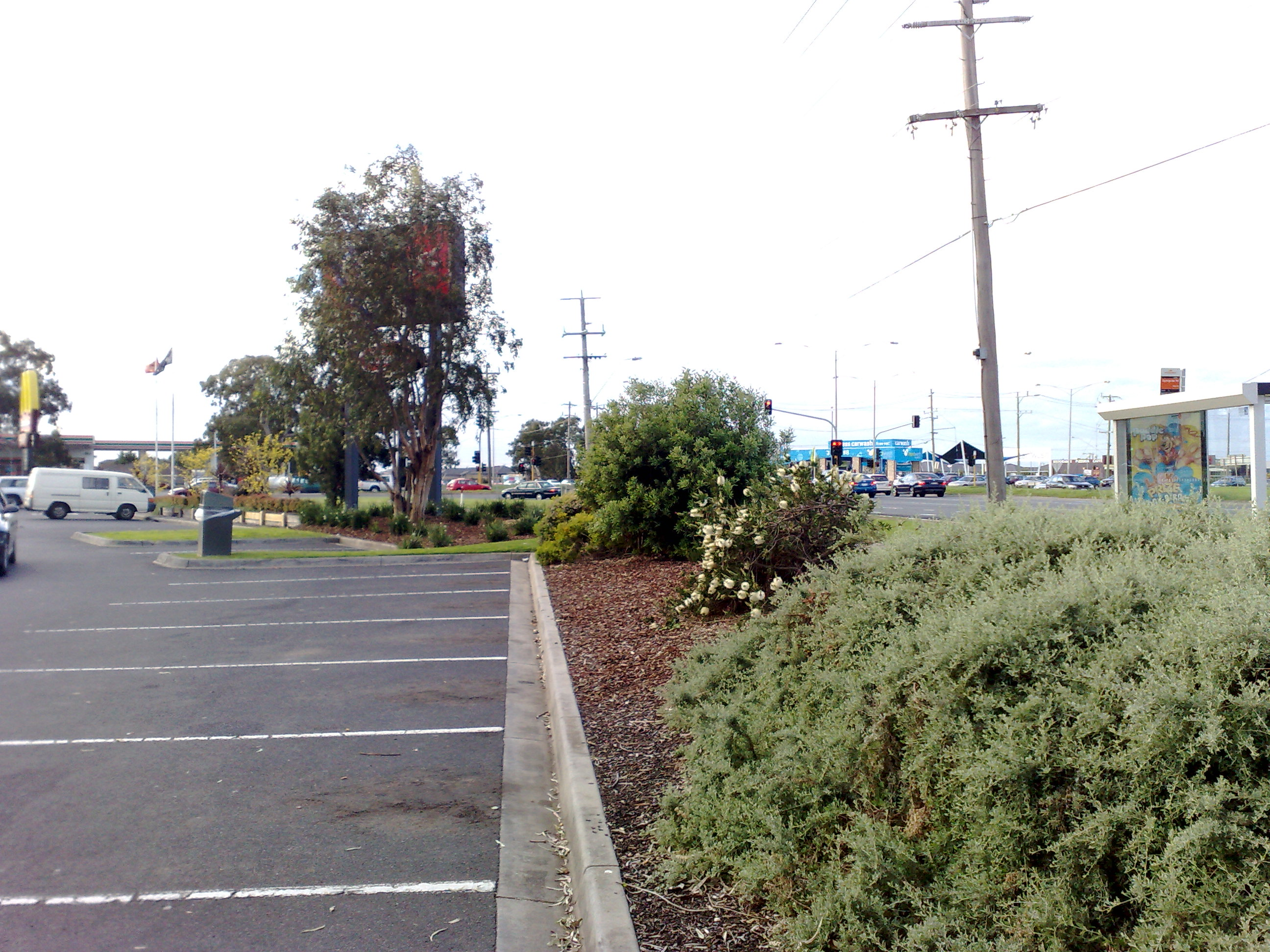 Chelsea Heights Fast Food area across the 7-Eleven on Wells Rd and Springvale Road intersection.